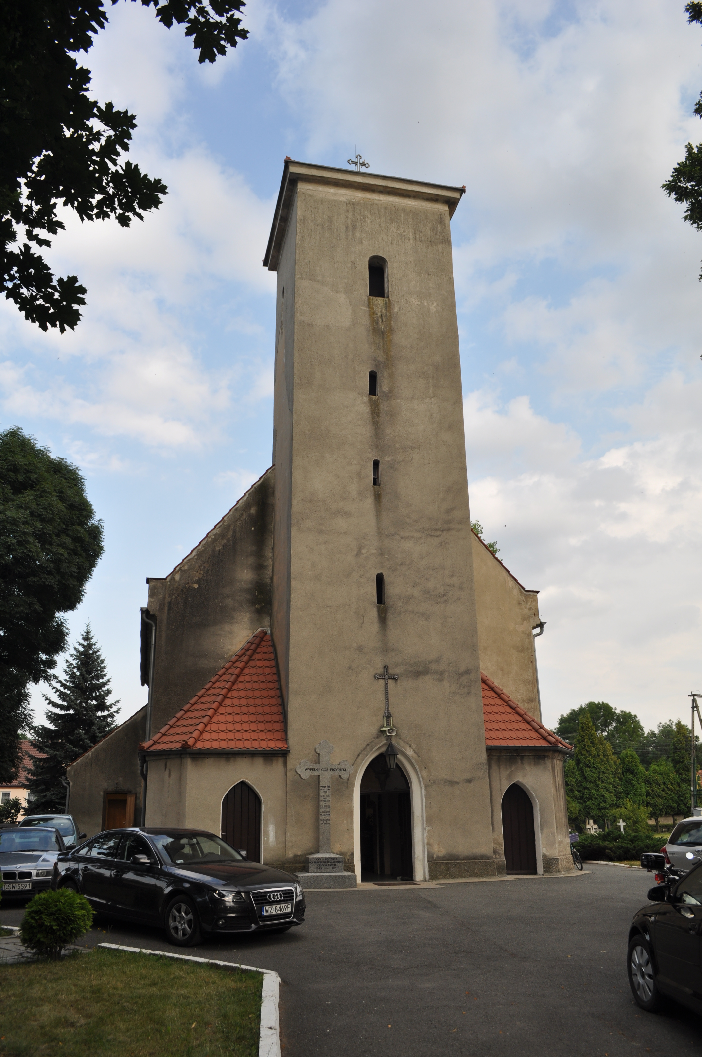 Church in Goczałków